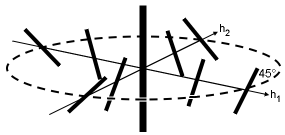 Perspective view on a double twist structure with two helical axes. The local directors perform a rotations of 90°.